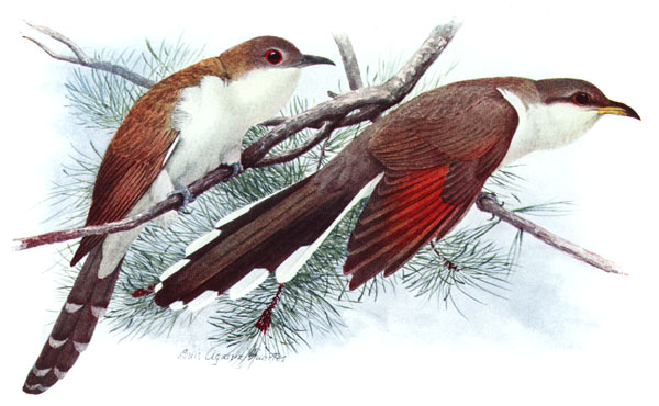 Black-billed Cuckoo (left), Yellow-billed Cuckoo (right), Coccyzus erythropthalmus and Coccyzus americanus, offset reproduction of watercolor